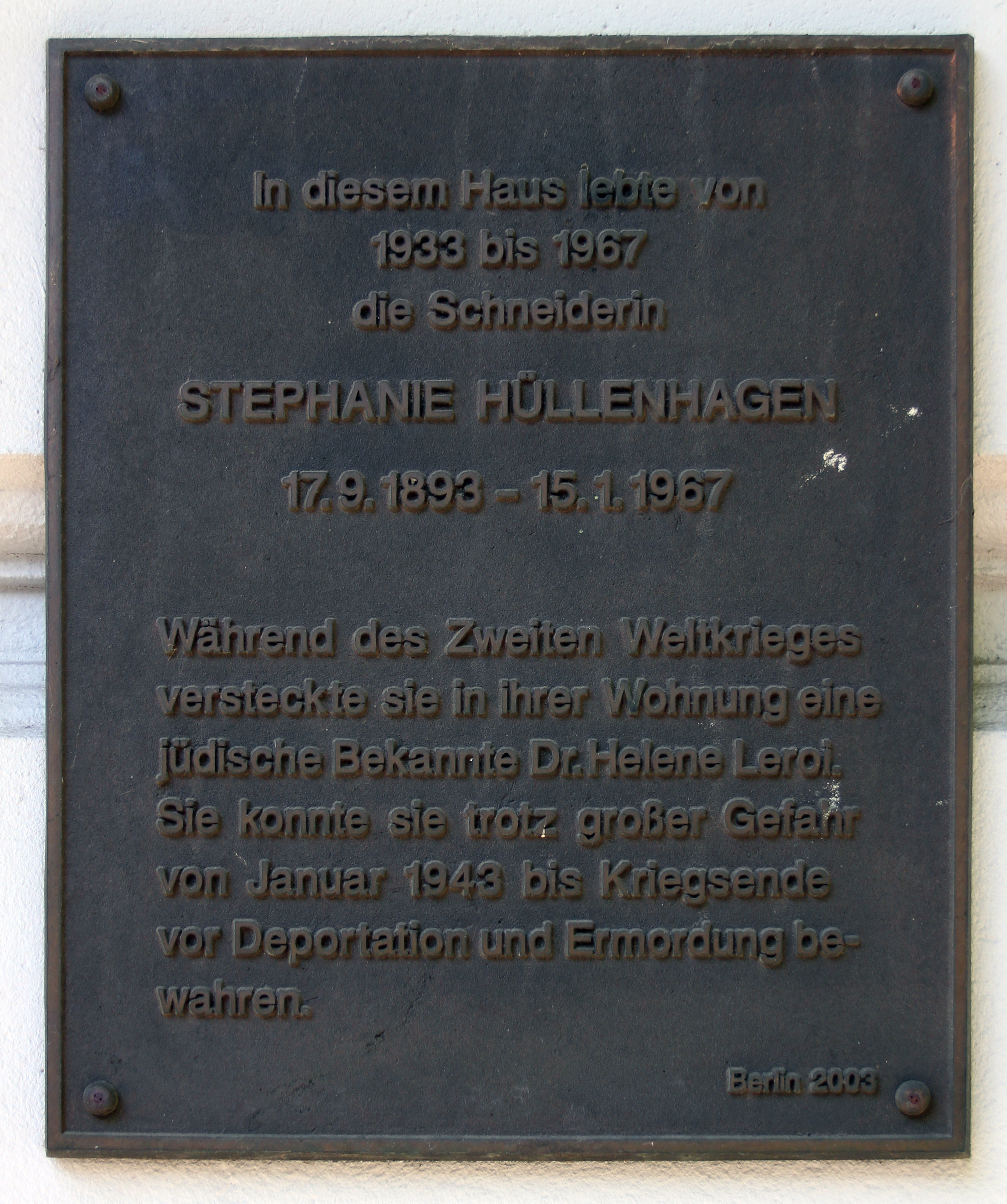 Memorial plaque, Stephanie Hüllenhagen, Bellermannstraße 14, Berlin-Gesundbrunnen, Germany